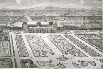 Project of the Royal Palace of Caserta as per project of Carlo Vanvitelli